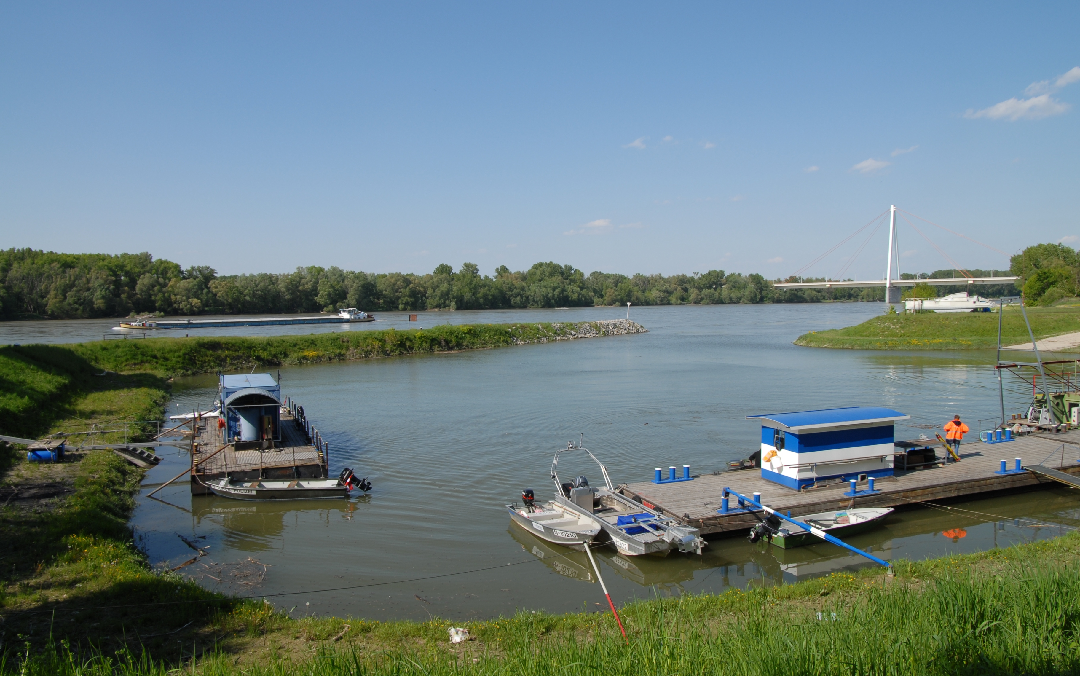 Operational port of Via donau (Austrian waterway administration), in the back: Danube bridge near Hainburg